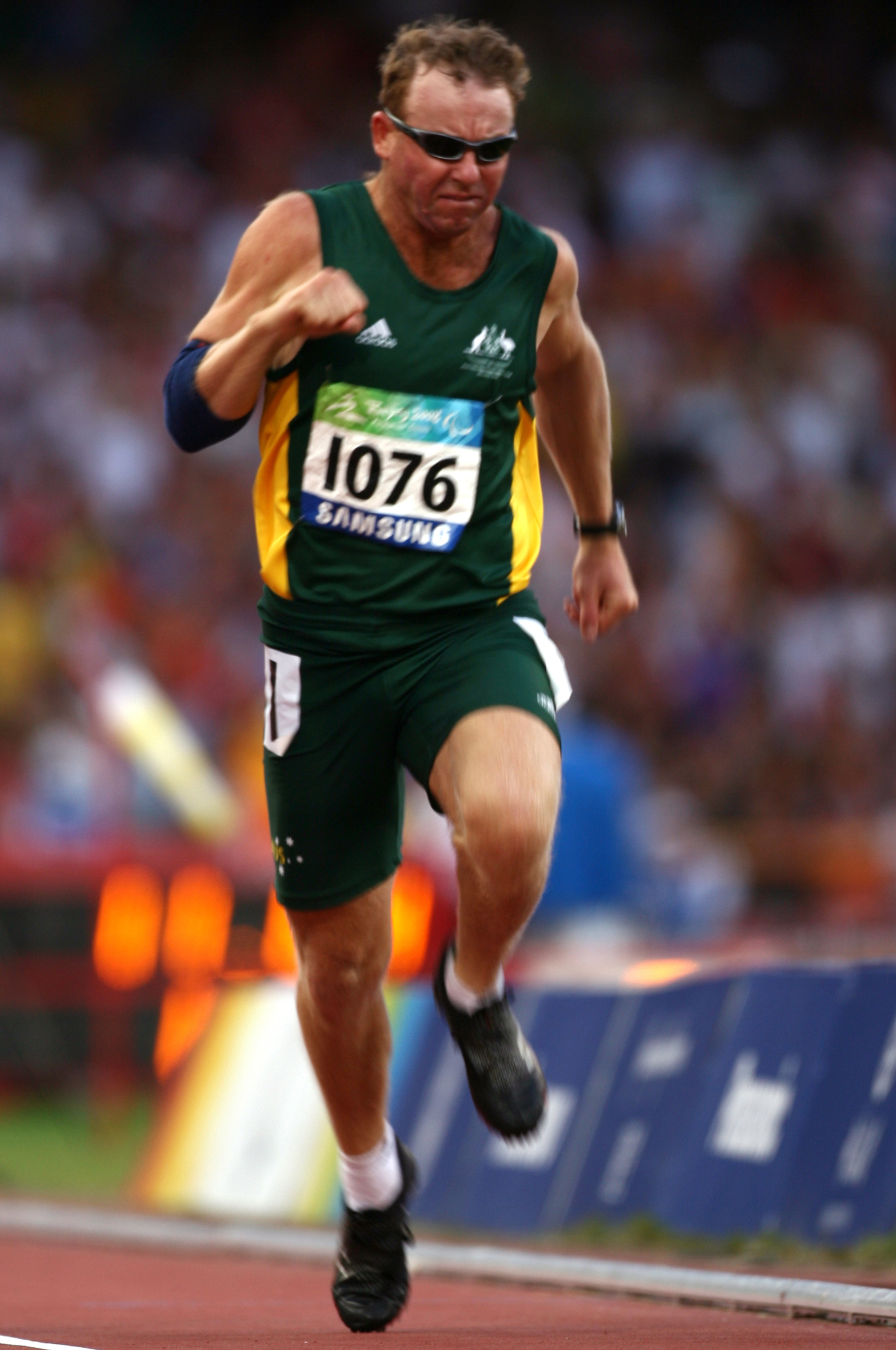 Australian athlete Darren Thrupp competes in the men's T37 100m final at the Beijing 2008 Paralympic Games. Thrupp finished seventh.